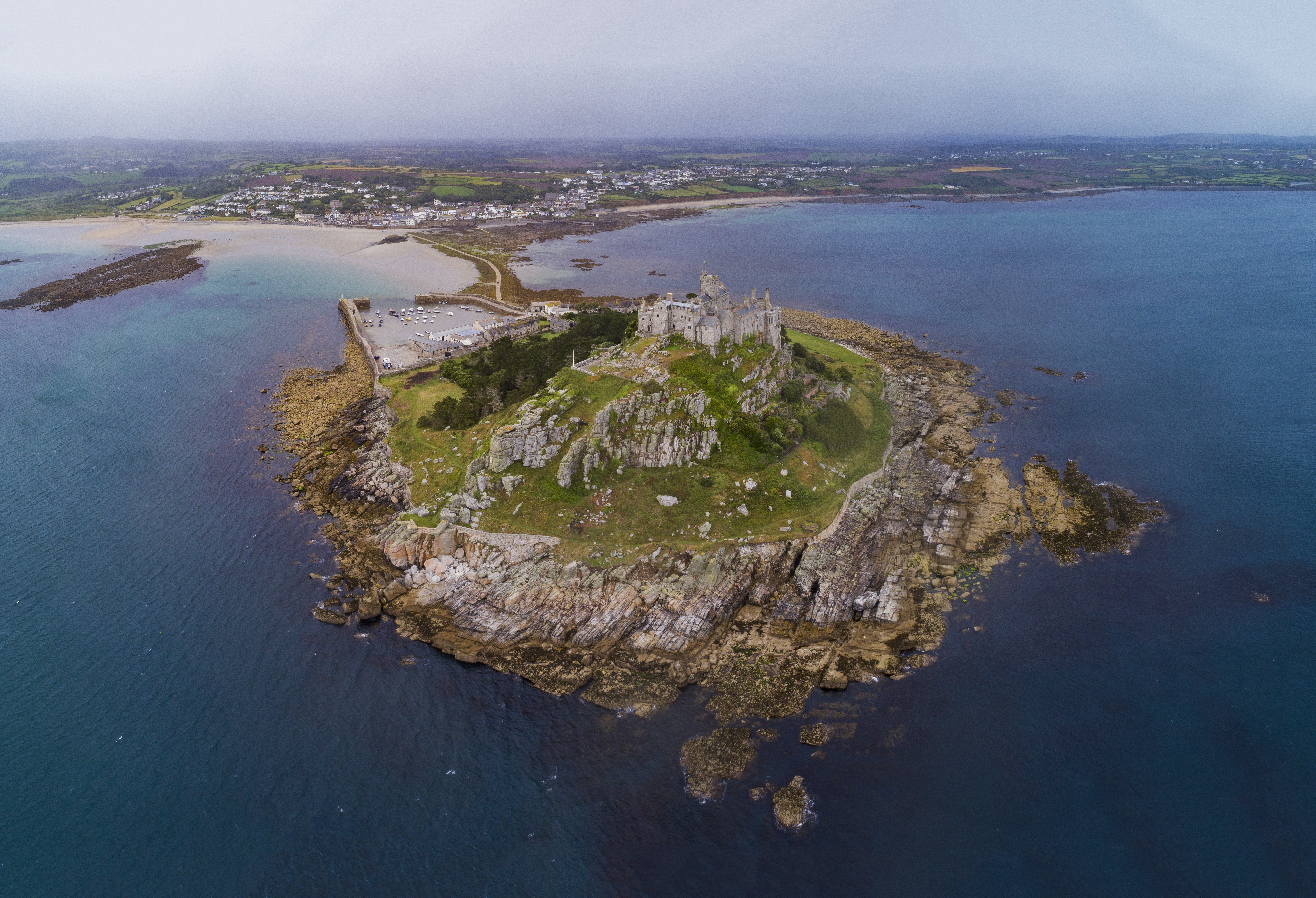 aerial st michaels mount england 2017